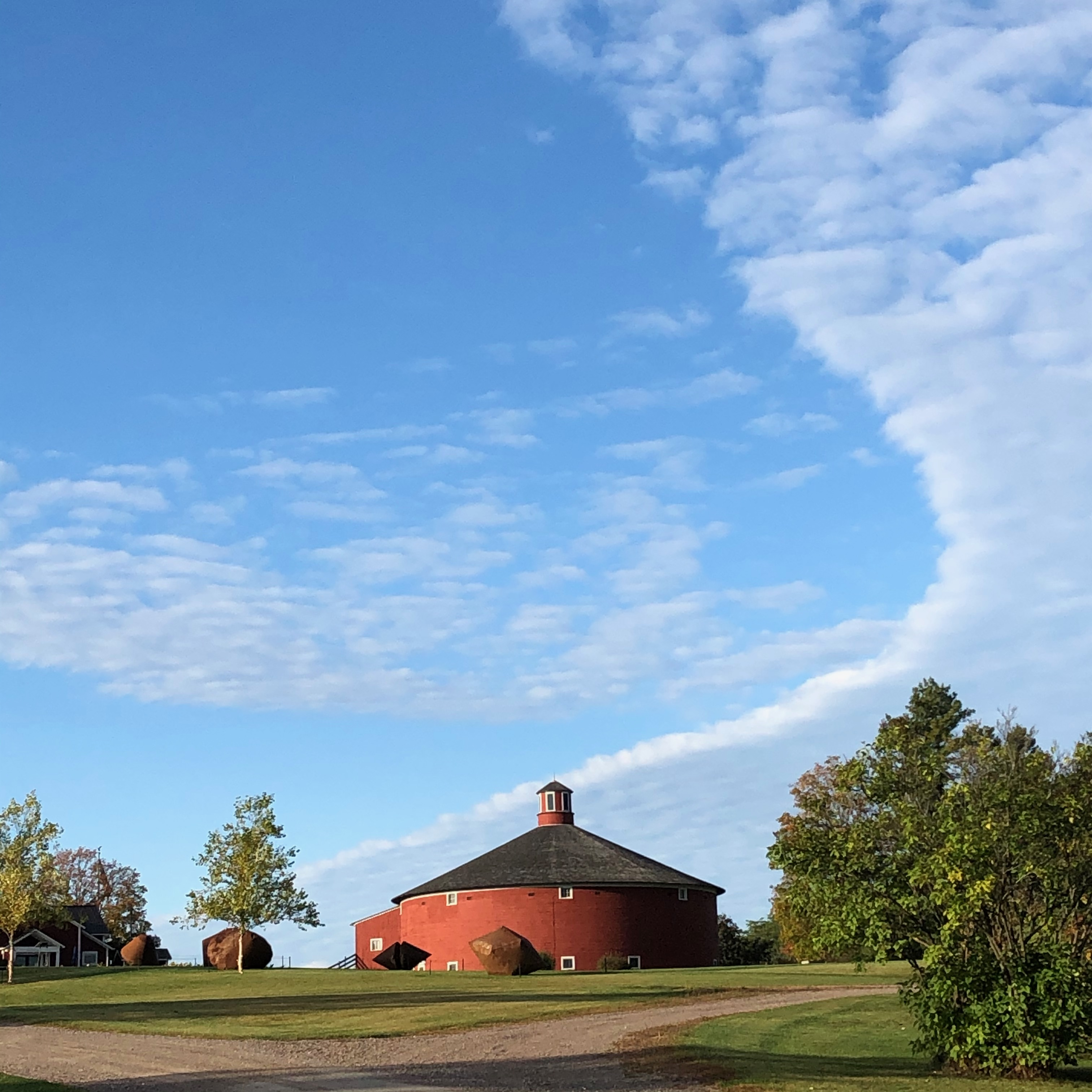 The Round Barn was originally constructed in East Passumpsic, VT in 1901 and was moved to the grounds of Shelburne Museum in 1985-1986. It is one of 39 exhibition buildings at the Museum.